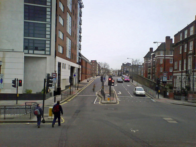 Ebury Bridge, SW1 This bridge goes over the railway lines a short way out of Victoria Station. Picture taken from Pimlico Road at the junction of Buckingham Palace Road.